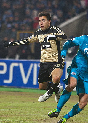 Nicolás Gaitán